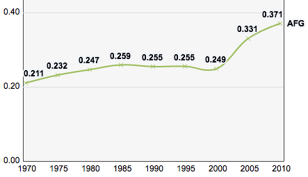 Trends in the Human Development Index for the country, 1970-2010